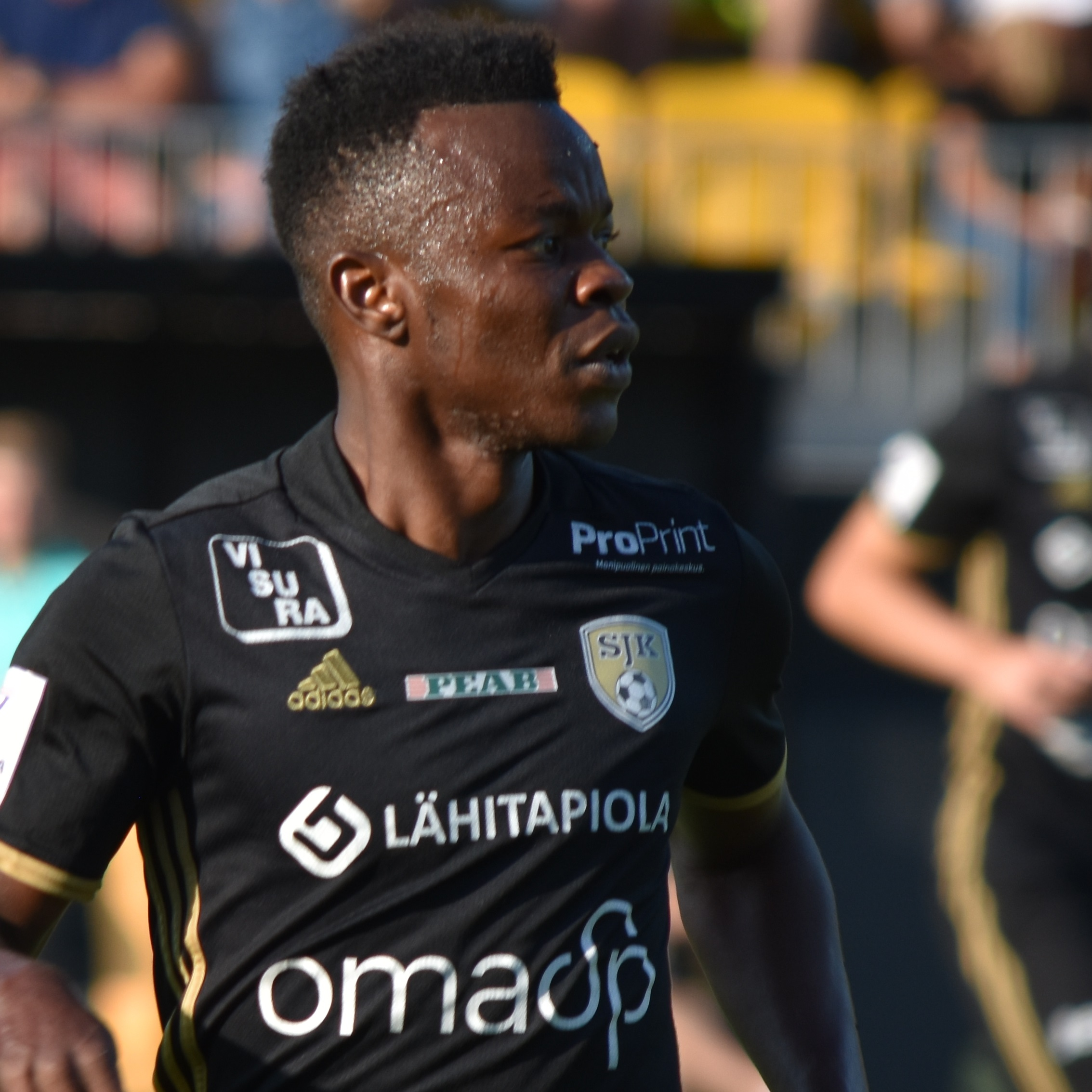 Association football player Emile Paul Tendeng (SJK)